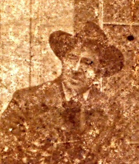 Stoyan Bachvarov, touring in 1909